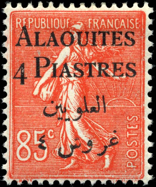 Alaouites 4-piastre overprint stamp of 1925